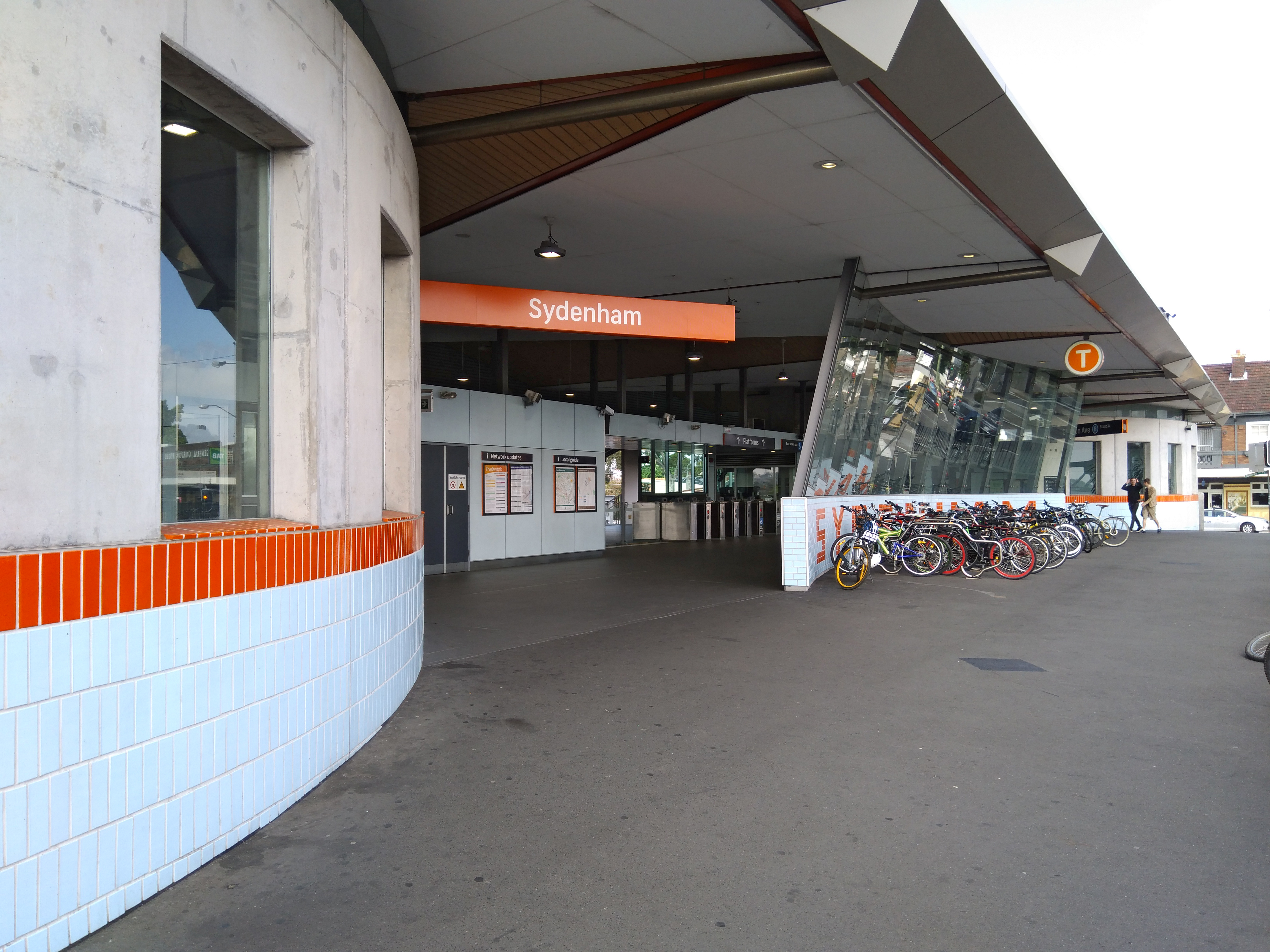 Entrance to Sydenham railway station.